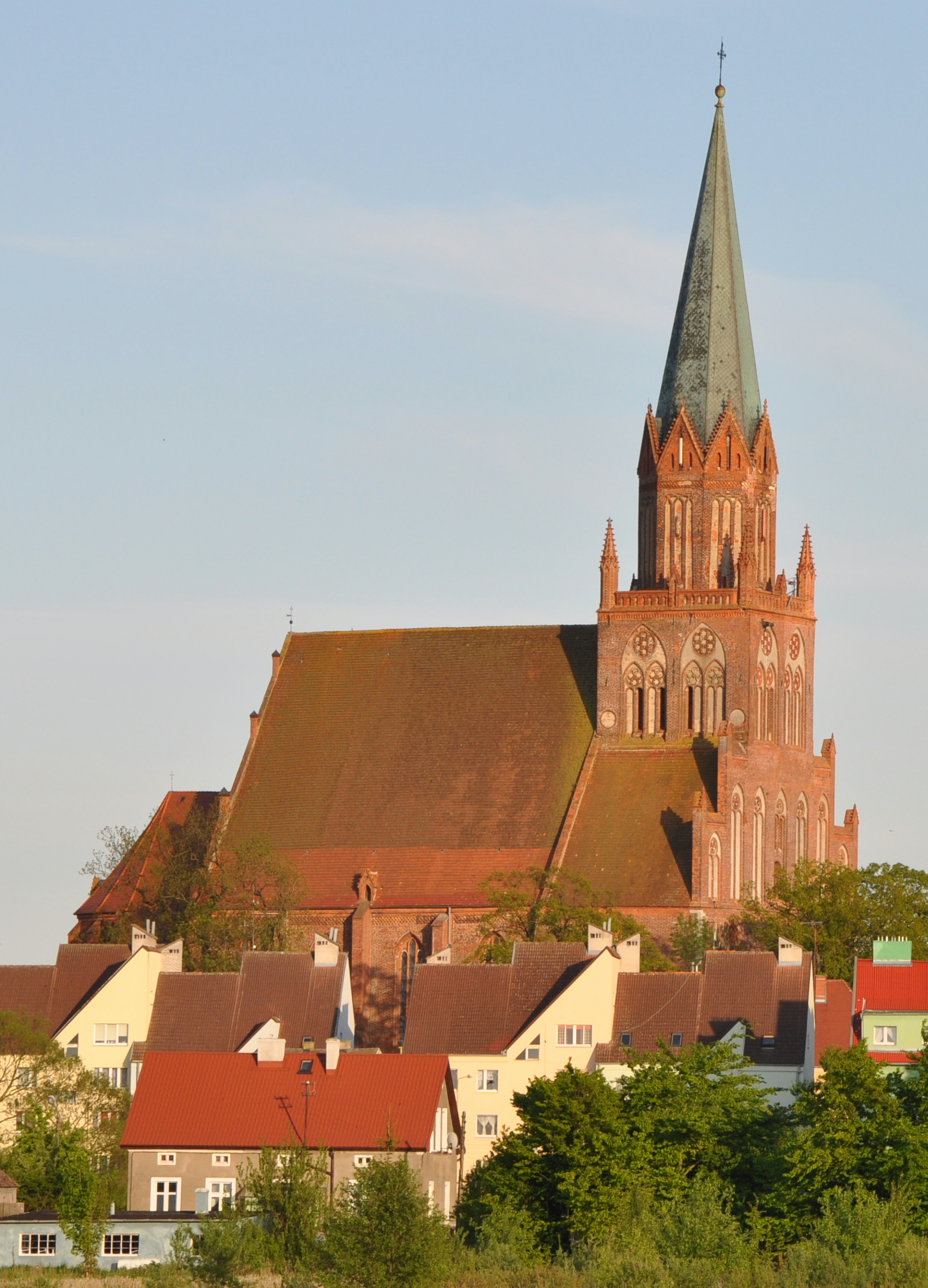 St. Mary's Maternity Roman Catholic Church in Trzebiatów, Poland